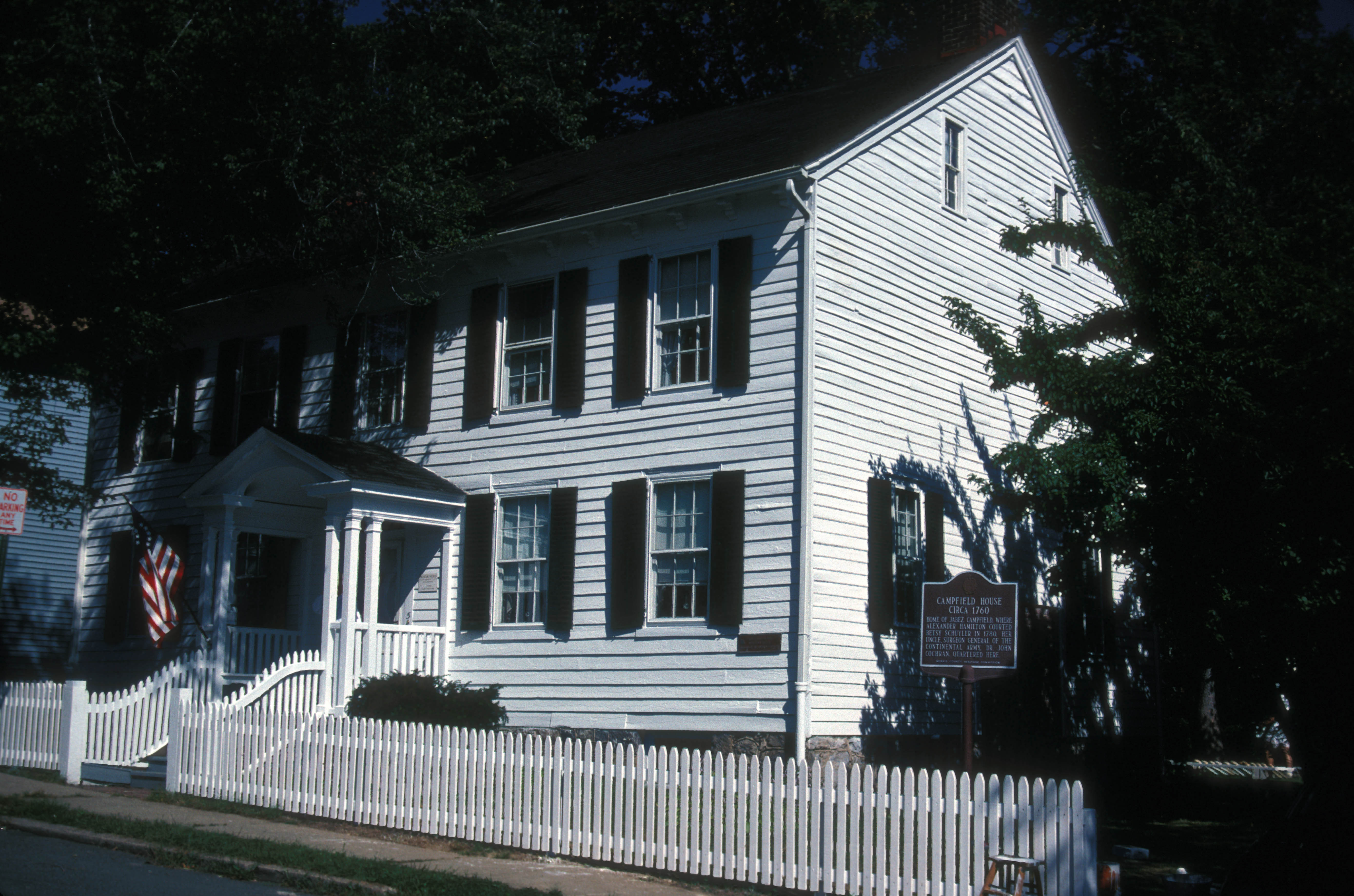 HERE ALEXANDER HAMILTON COURTED BETSY SCHUYLER IN 1780